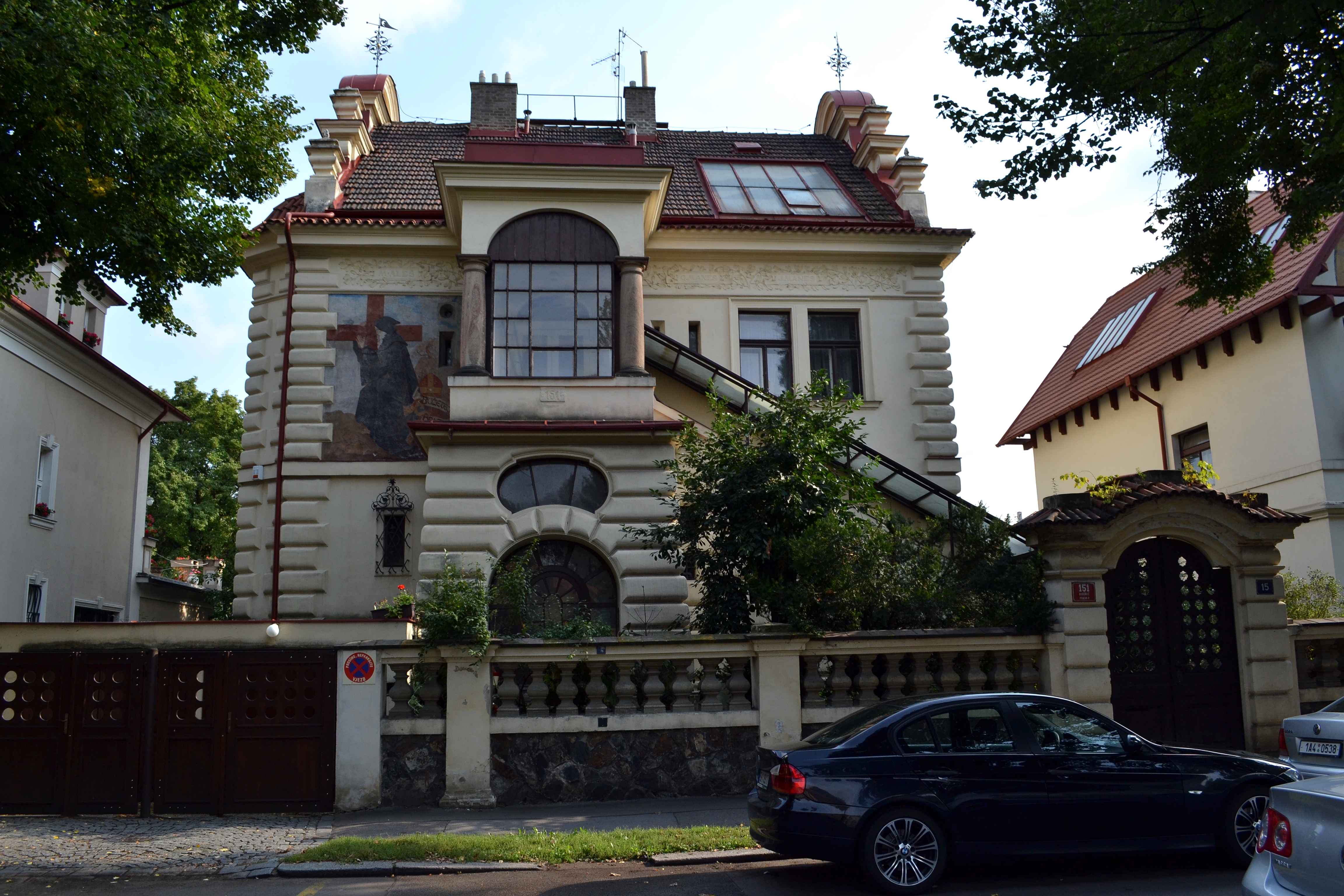 Cultural monument "Vila Suchardova" ("Suchard's Villa"), Slavíčkova street 151/15, Bubeneč, Prague 6, Czech Republic.